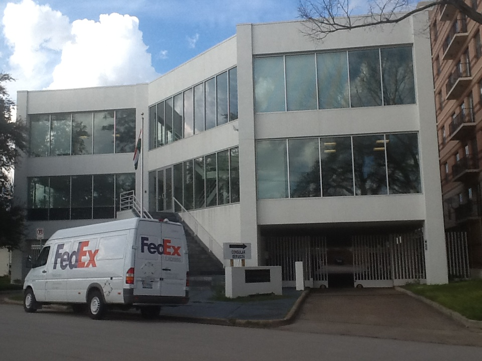 Consulate-General of India, Houston